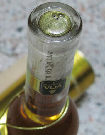 The black & gold Vinter's Quality Alliance (VQA) label on a bottle of Canadian Ice Wine from Inniskillin. This label signifies that the wine is made completely from Canadian grapes instead of the "Cellar in Canada" label which can be made from imported grapes.